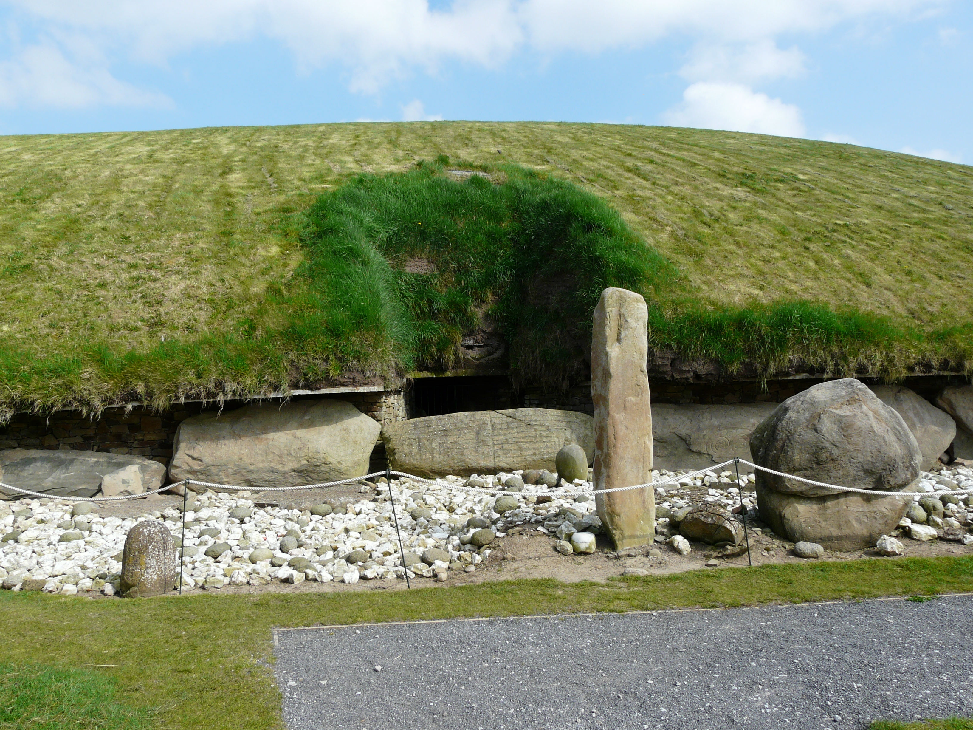 Entrance to the western passage grave of Knowth in County Meath, Ireland. The reconstruction shows a bed of quartz surrounding the entrance to the passage.